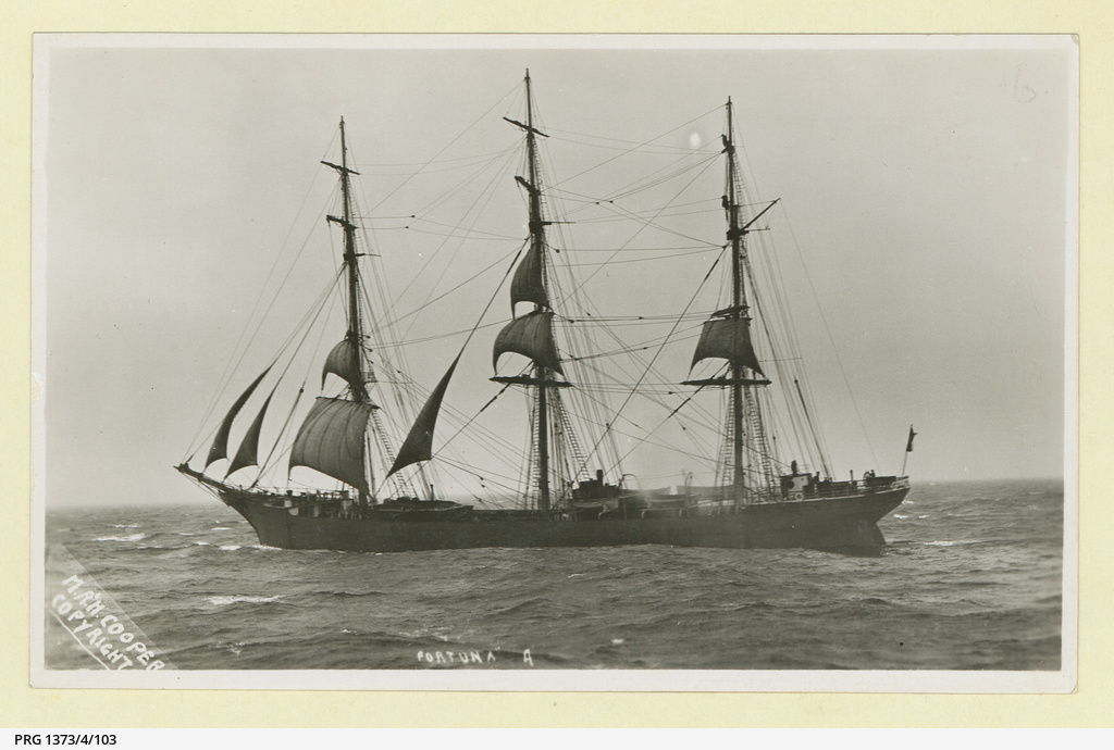 The iron ship Fortuna (ex. Ems), 1703 tons, under sail.